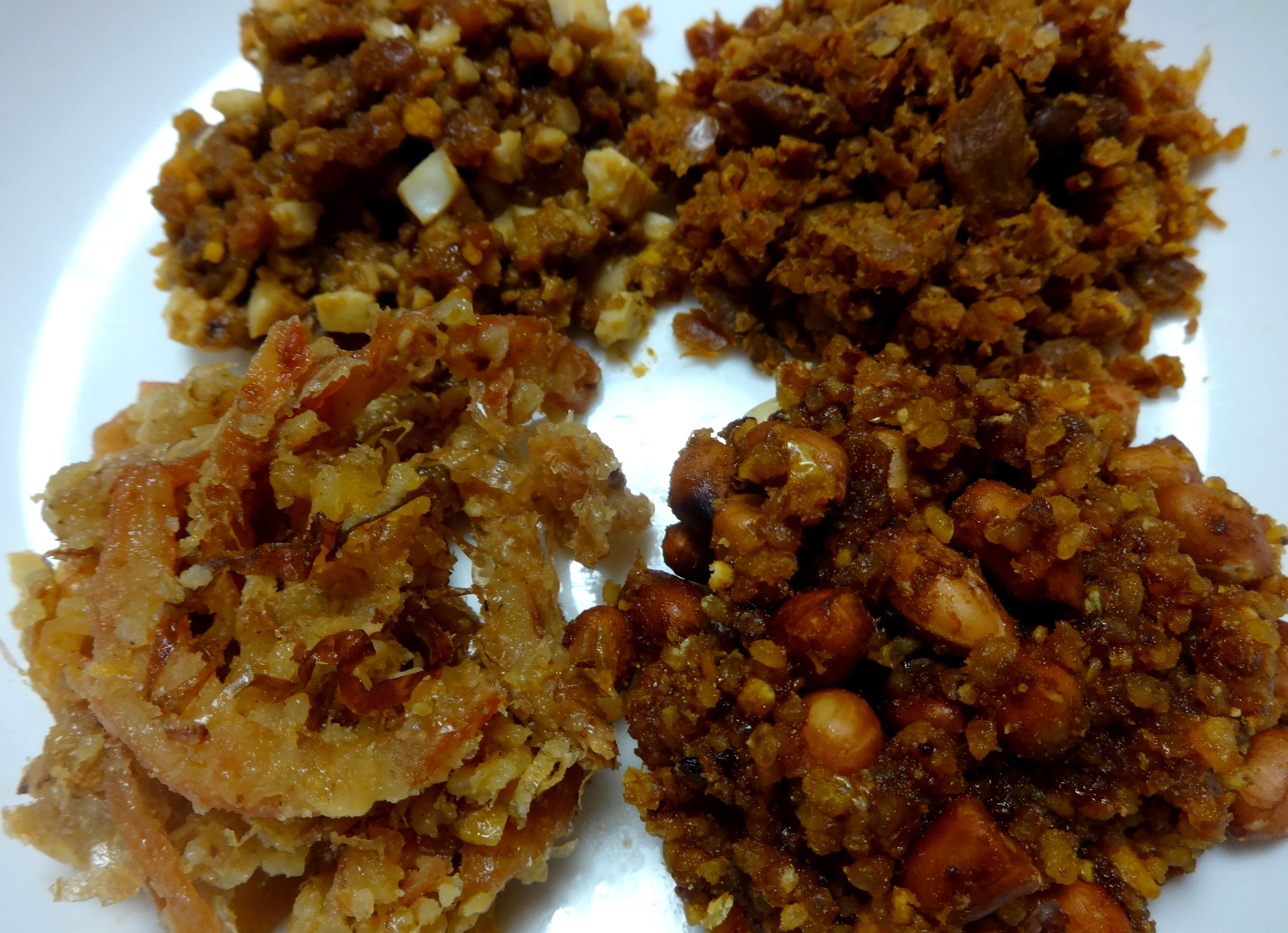 Miso with boiled egg, miso with fish meat, miso with squid, miso with peanuts of Amami cuisine